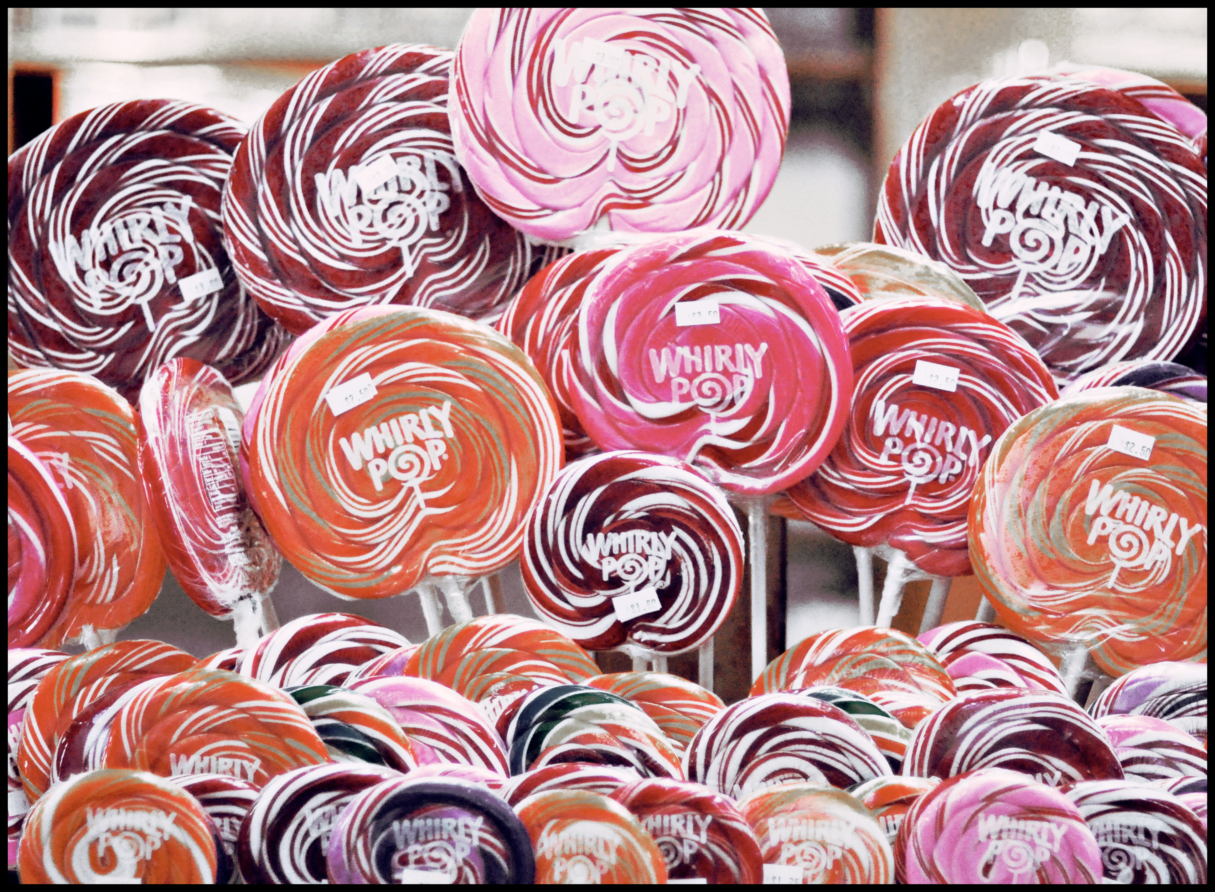 Whirly Pop lollipops.